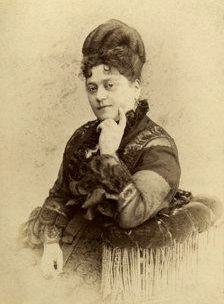 Photograph portrait of the Austrian opera singer Antonietta Fricci taken in Trieste, Italy.